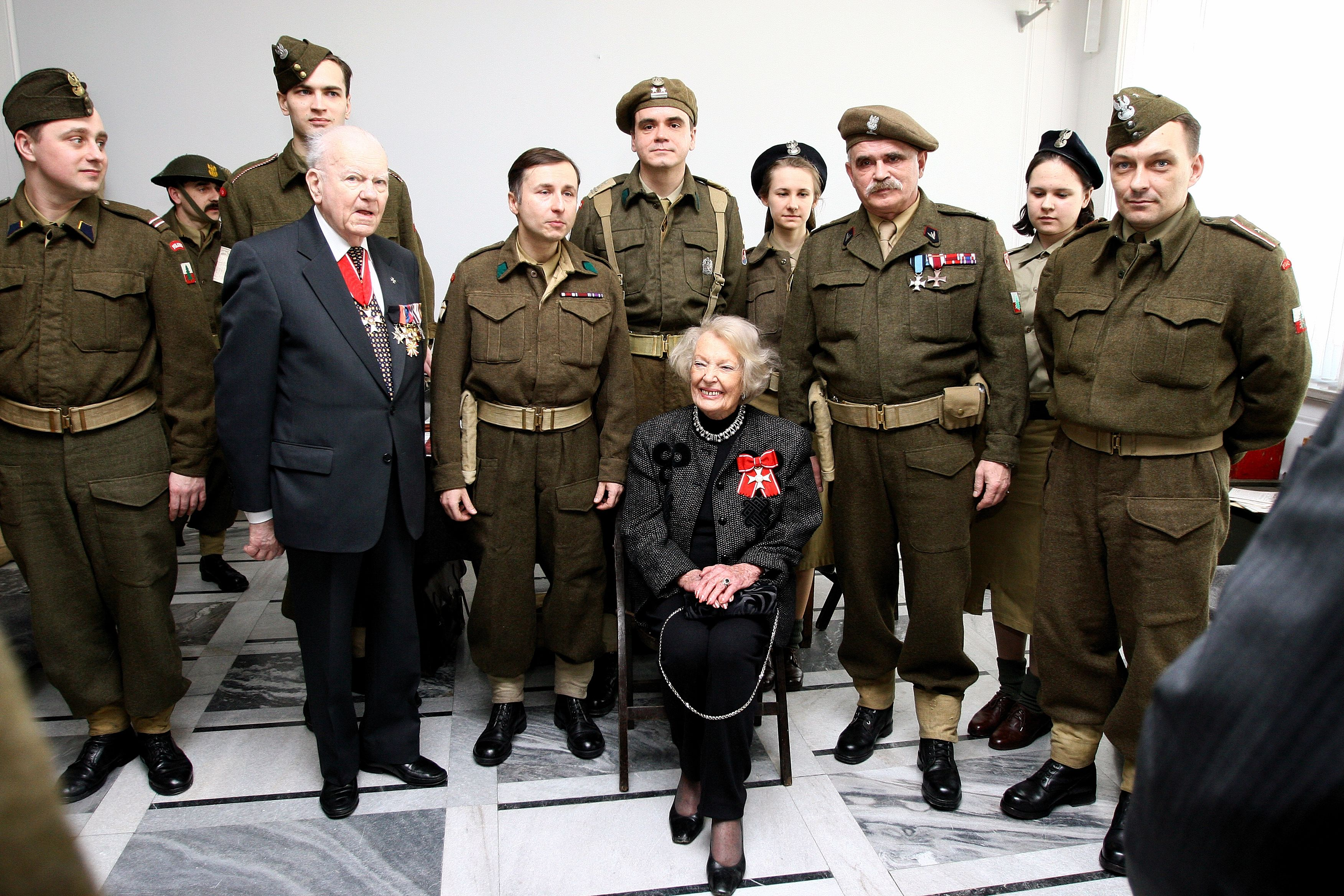 Irena Anders in the Polish Senate. Ceremony marking the end of Władysław Anders Year